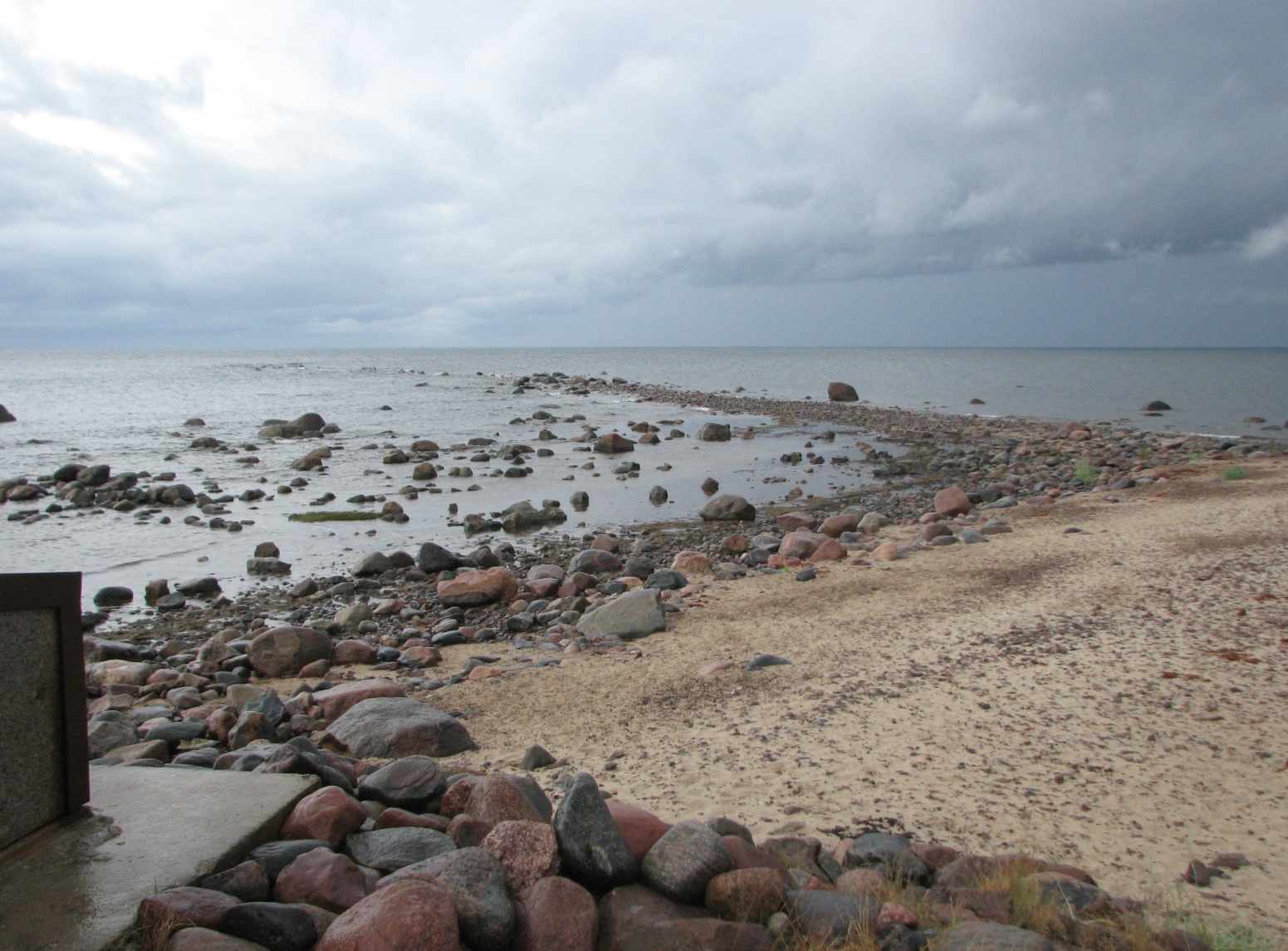 Tahkuna nose, Hiiumaa, Estonia